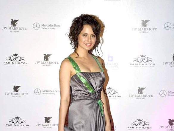 Kangna at Paris Hilton's bash at JW Marriott